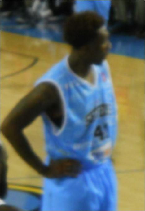 Tiny Gallon prepares to shoot a free throw in a game against the Texas Legends, January 25, 2015.